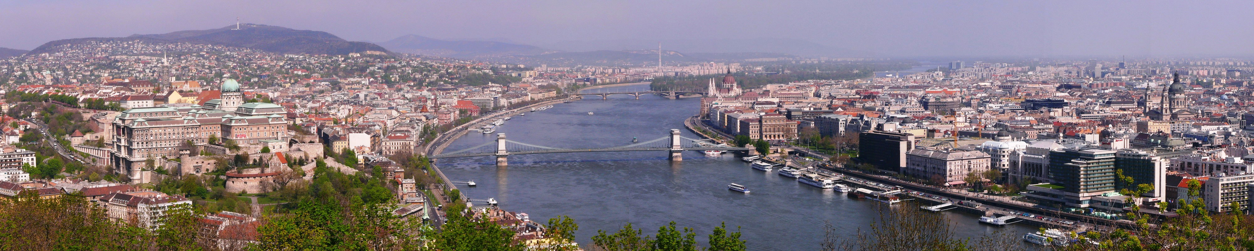 Panorama of Budapest from the Gellért Hill